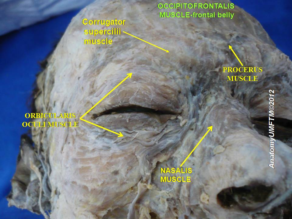 Anatomical dissections